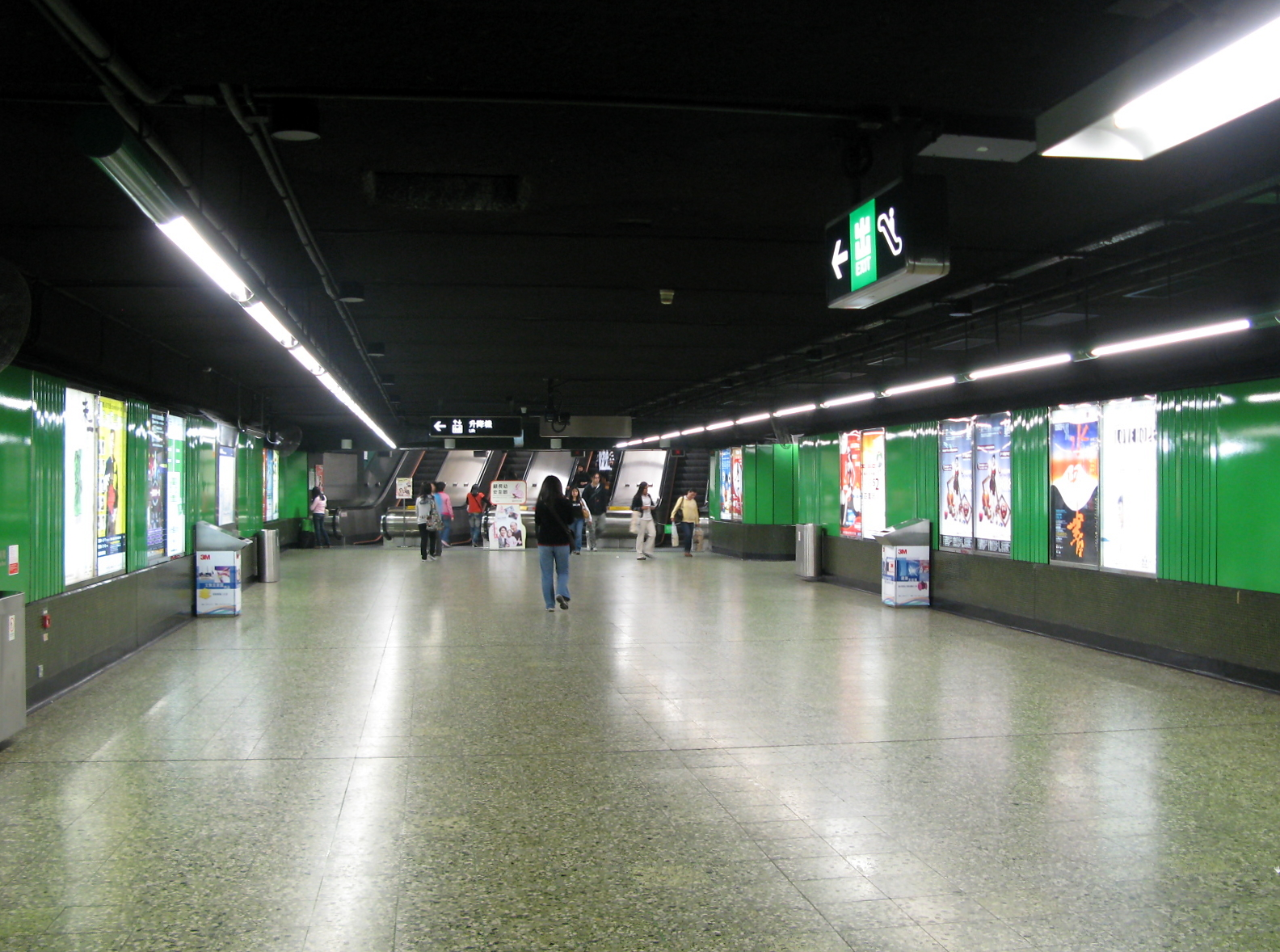 HK MTR Fortress Hill Station Access 港鐵炮台山站